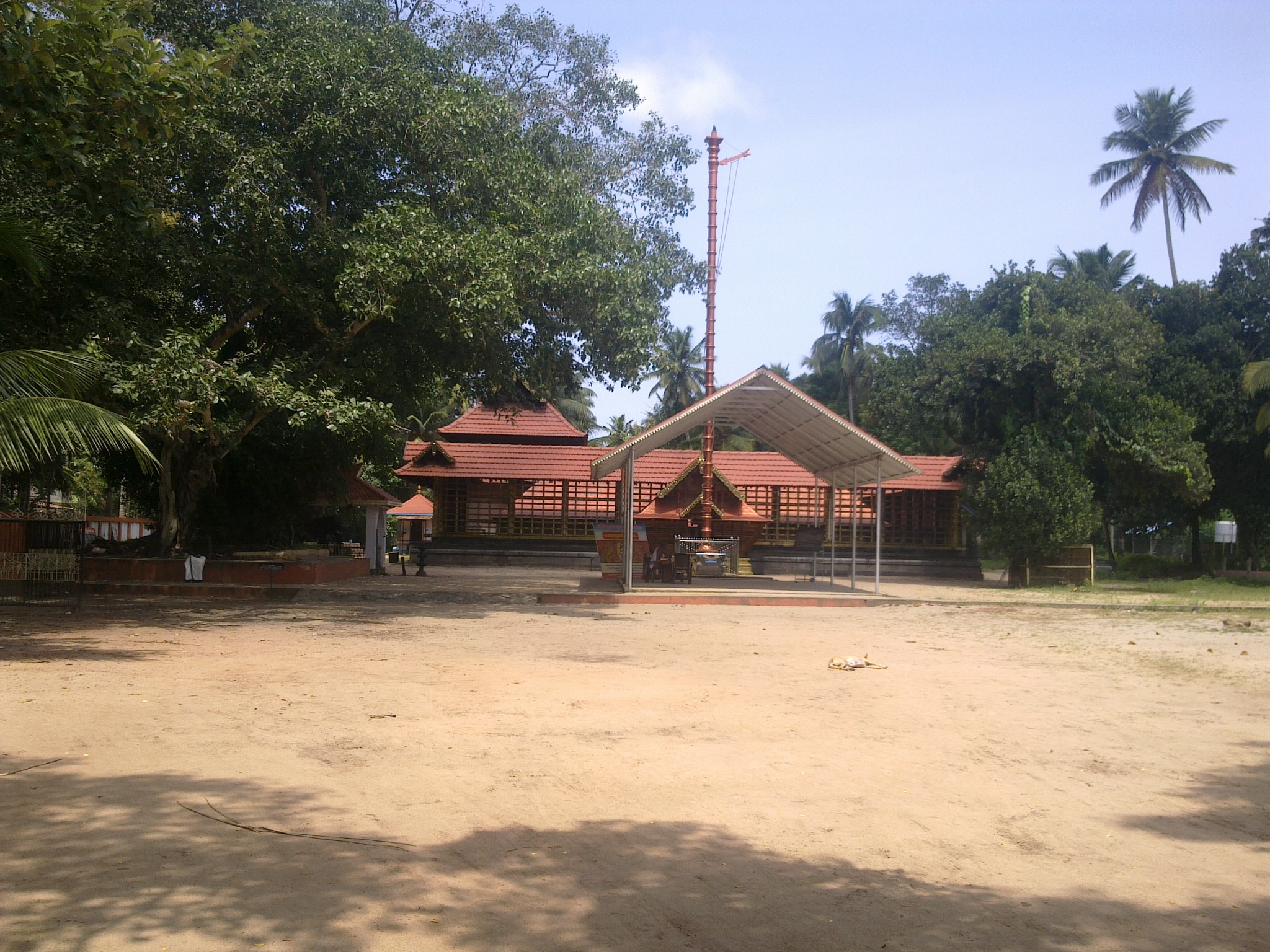 Changamkulangara Mahadeva Temple, Ochira, Kollam